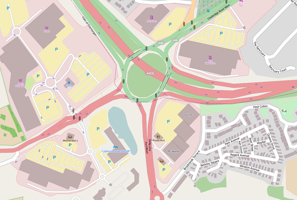 Map showing Culverhouse Cross, Vale of Glamorgan/Western Cardiff